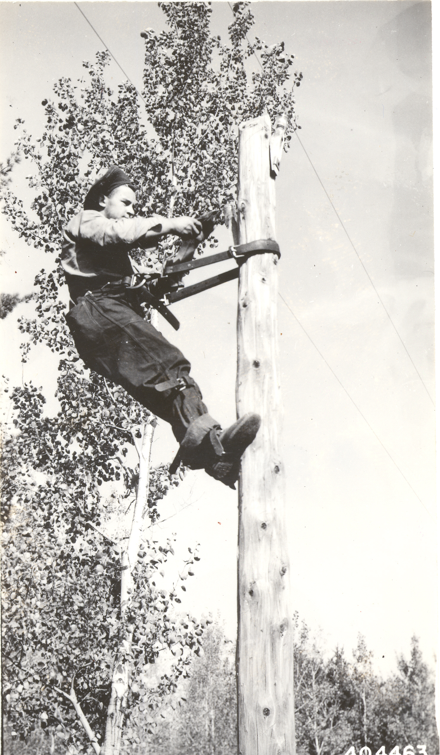 Partridge River CCC Camp, F-52 (J.W. Trygg)